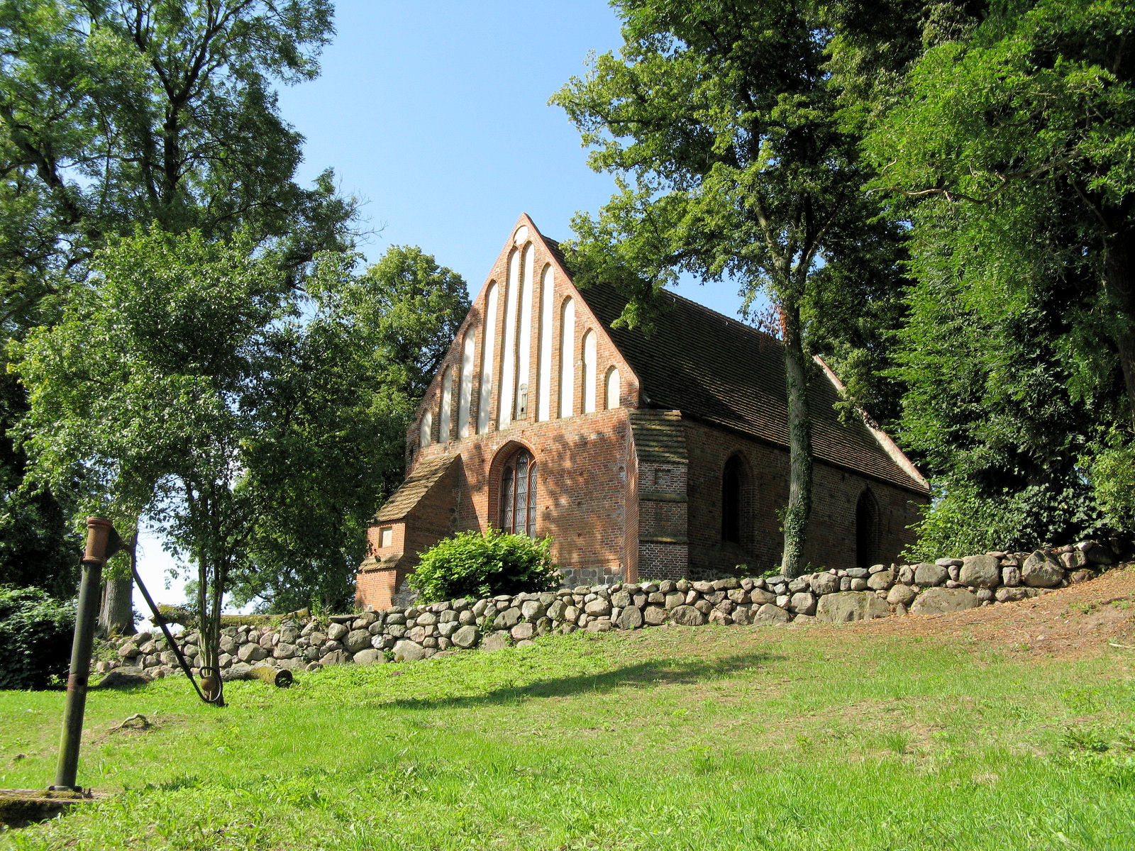 Church in Boitin, disctrict Güstrow, Mecklenburg-Vorpommern, Germany